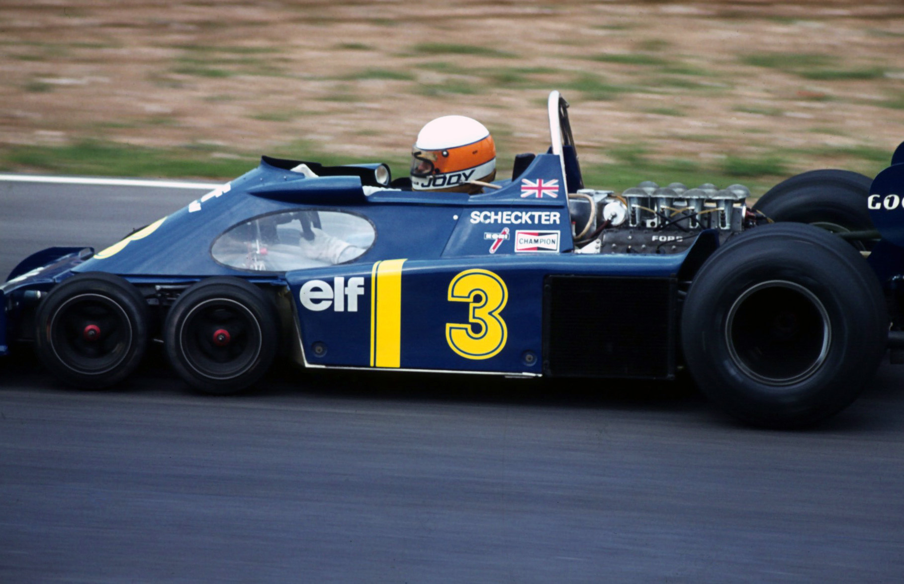 Jody Scheckter's F1 car.